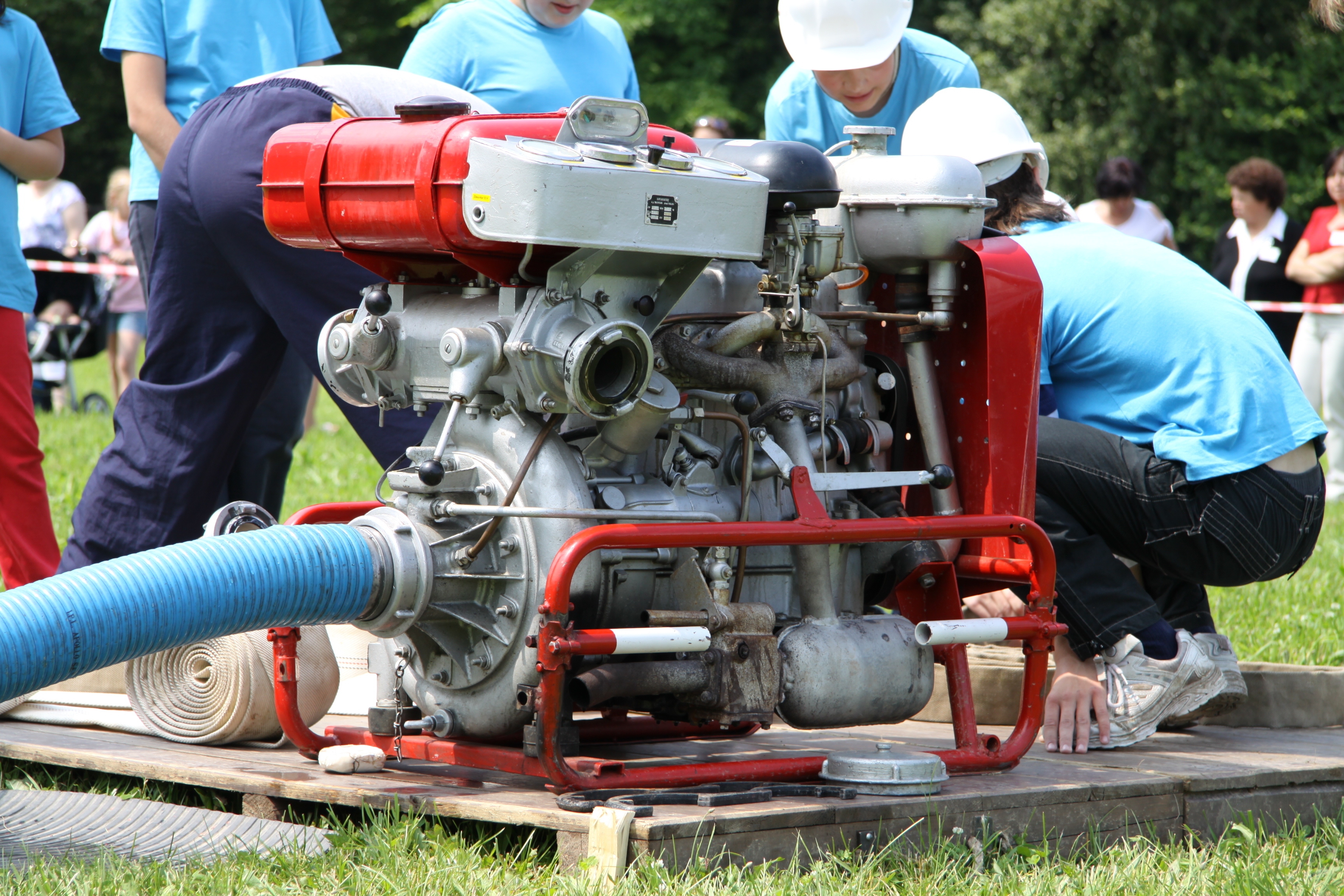 Firefighter games in Hrazany village, Písek District, Czech Republic - Google Maps - Google Earth